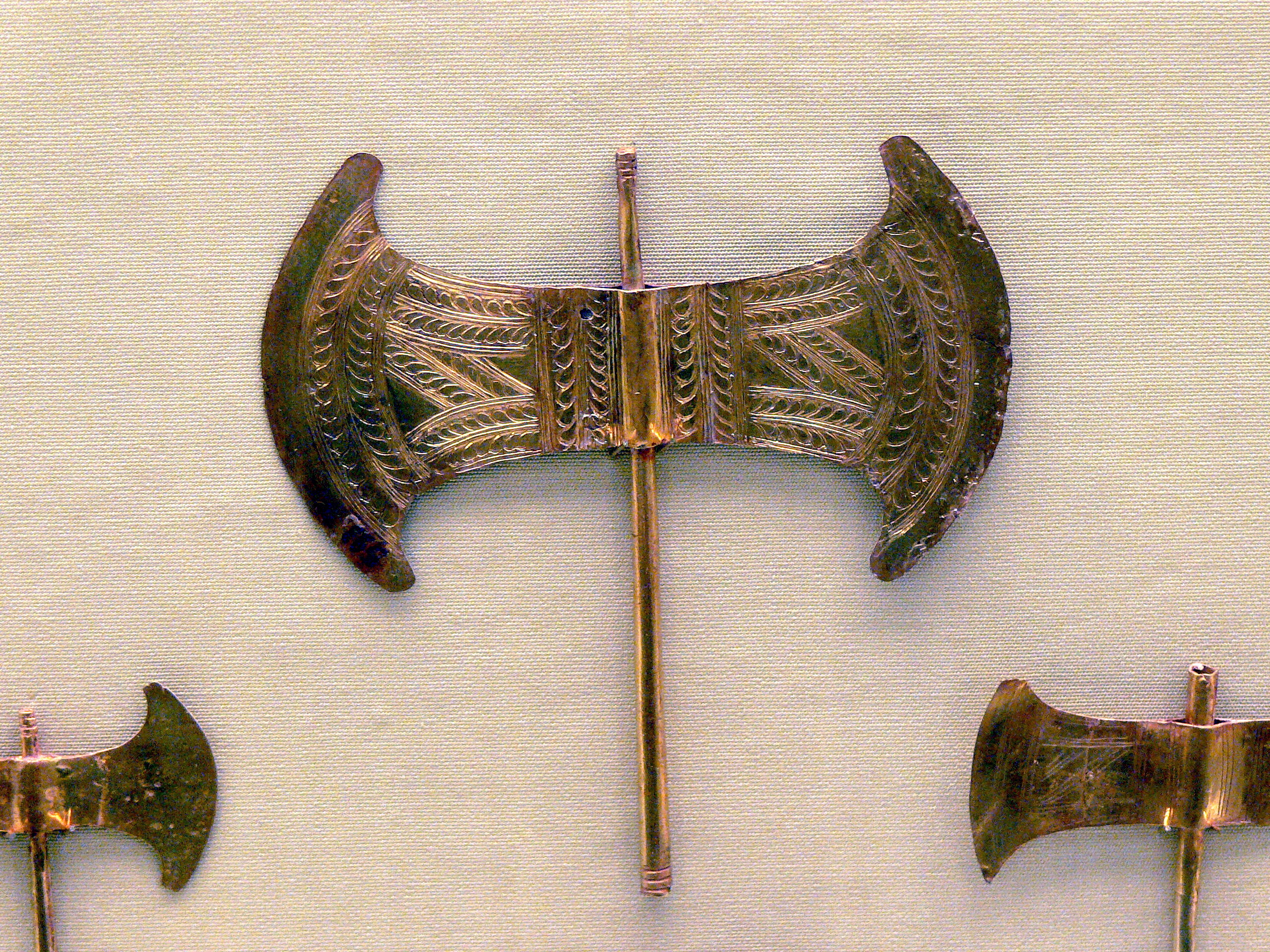 Archaeological Museum in Herakleion. Golden minoan labrys ( double ax ).